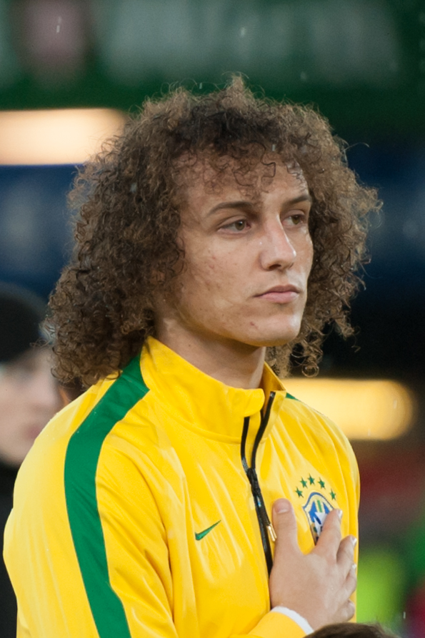 International Friendly Austria - Brazil November 18, 2014: David Luiz